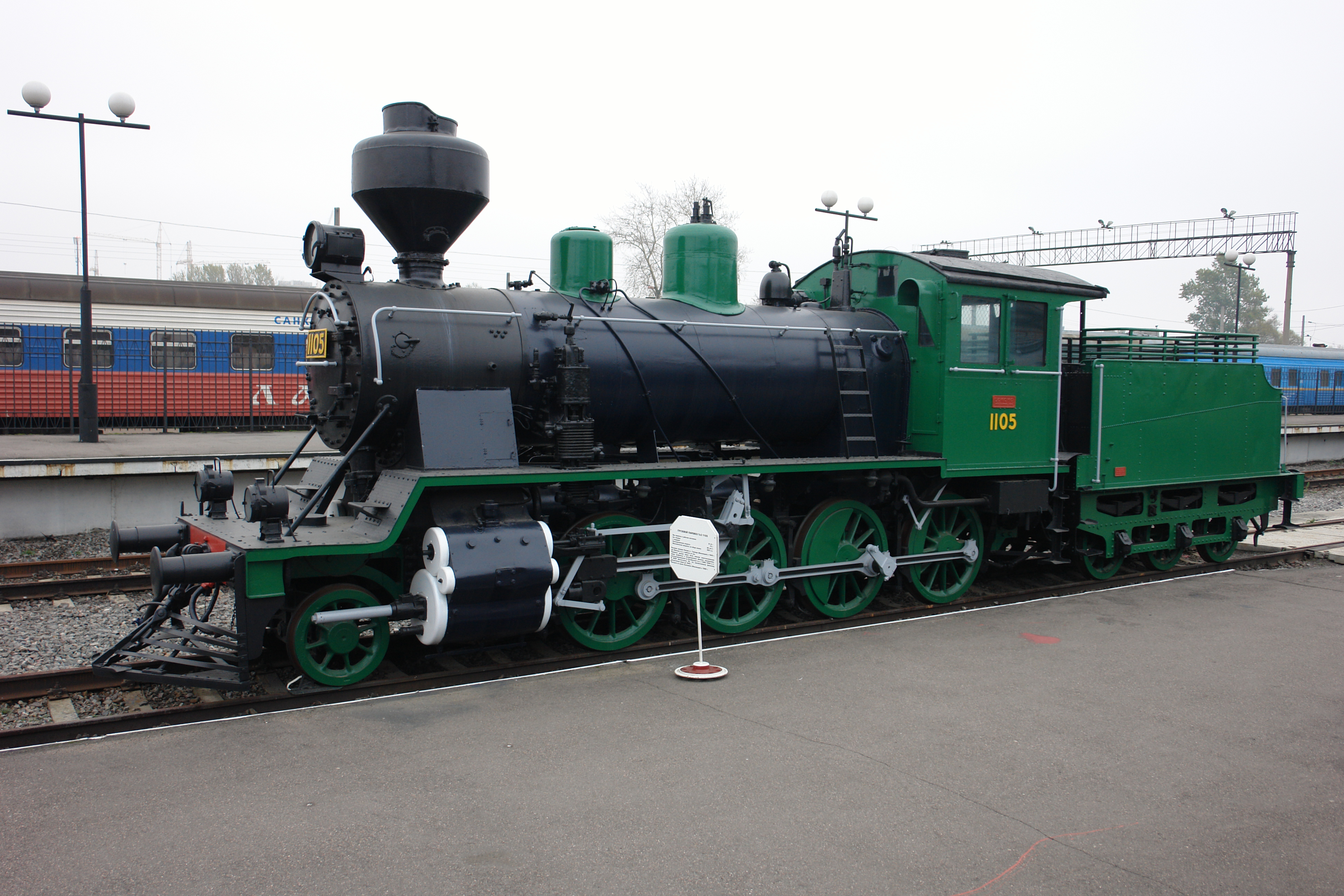 Freight steam locomotive Tk3 1105 Weight in serviceable condition:excluding tender51,8 t.including tender73 t.design speed6O km/hMaximum power on wheel rim600 hp A freight locomotive of Finnish origin. Designed as wood burner and has a spark catcher in the chimney- These locomotives were received by the USSR as a i/i/ar reparation after the Soviet-Finnish VJar and the Second World War. Used on the October Railway as class K5, its Initial Finnish designation. Built by Lokomo in Tampere in 1943 and used only in Finland Received by the museum from Haapamaki locomotive museum.